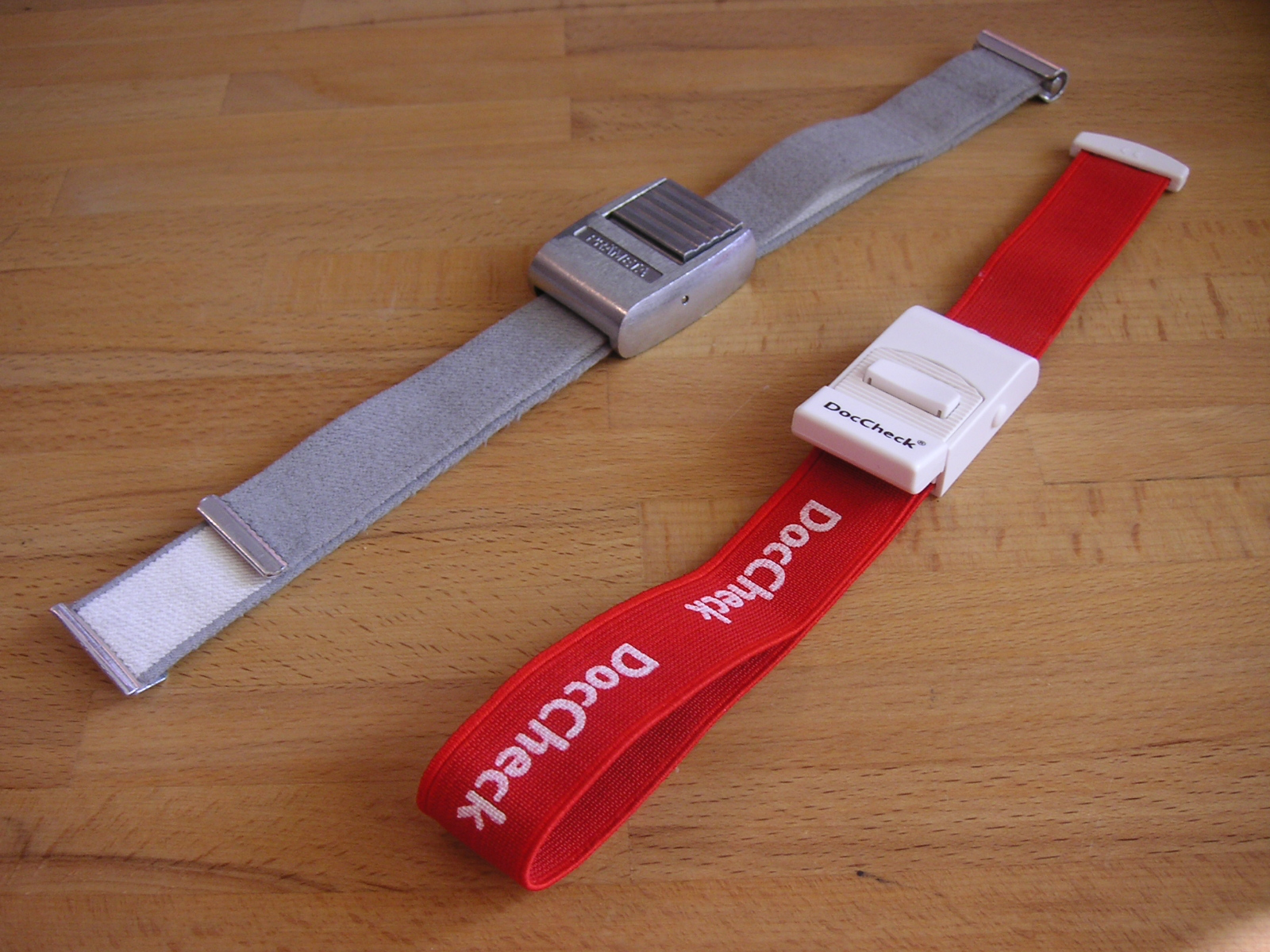 Two tourniquets of different fabrication